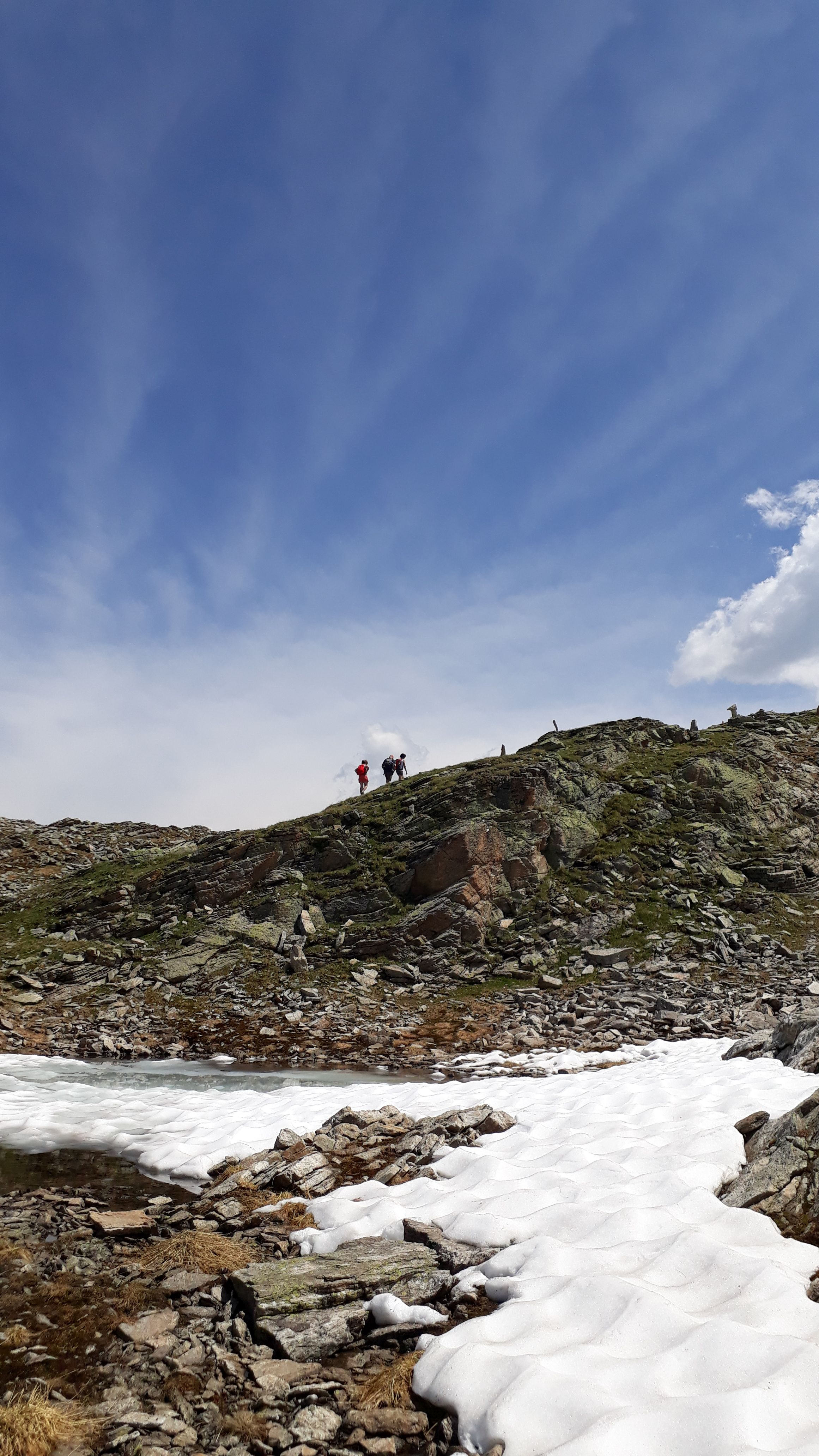 Ascending to Hennekopf in Tyrol (Galtür), 2706 masl.